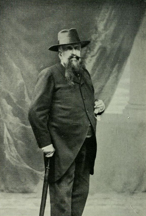 "Le Docteur Gustave Le Bon."